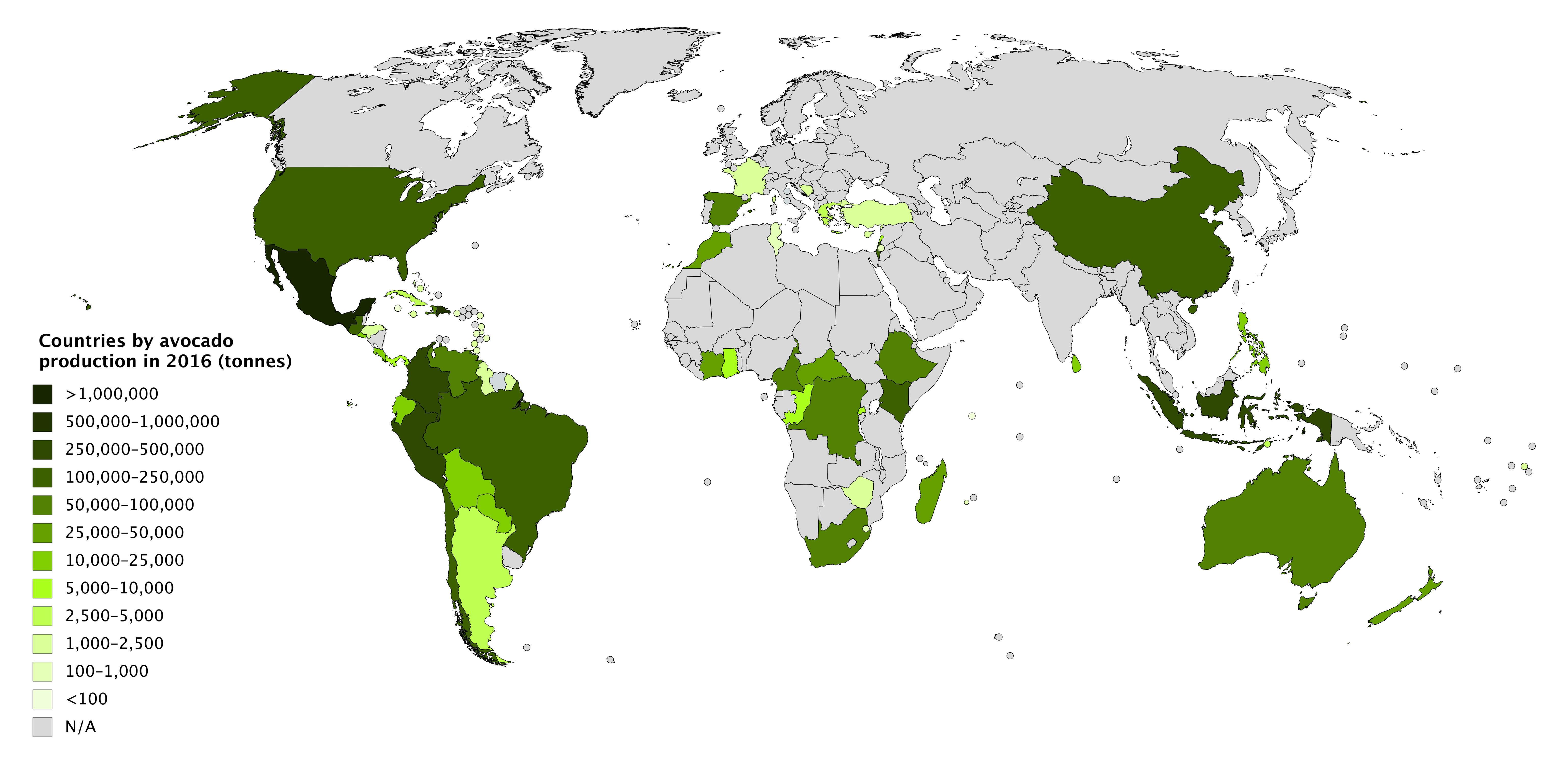 A choropleth map showing countries by avocado production in tonnes, based on 2016 data from the Food and Agriculture Organization Corporate Statistical Database (FAOSTAT).